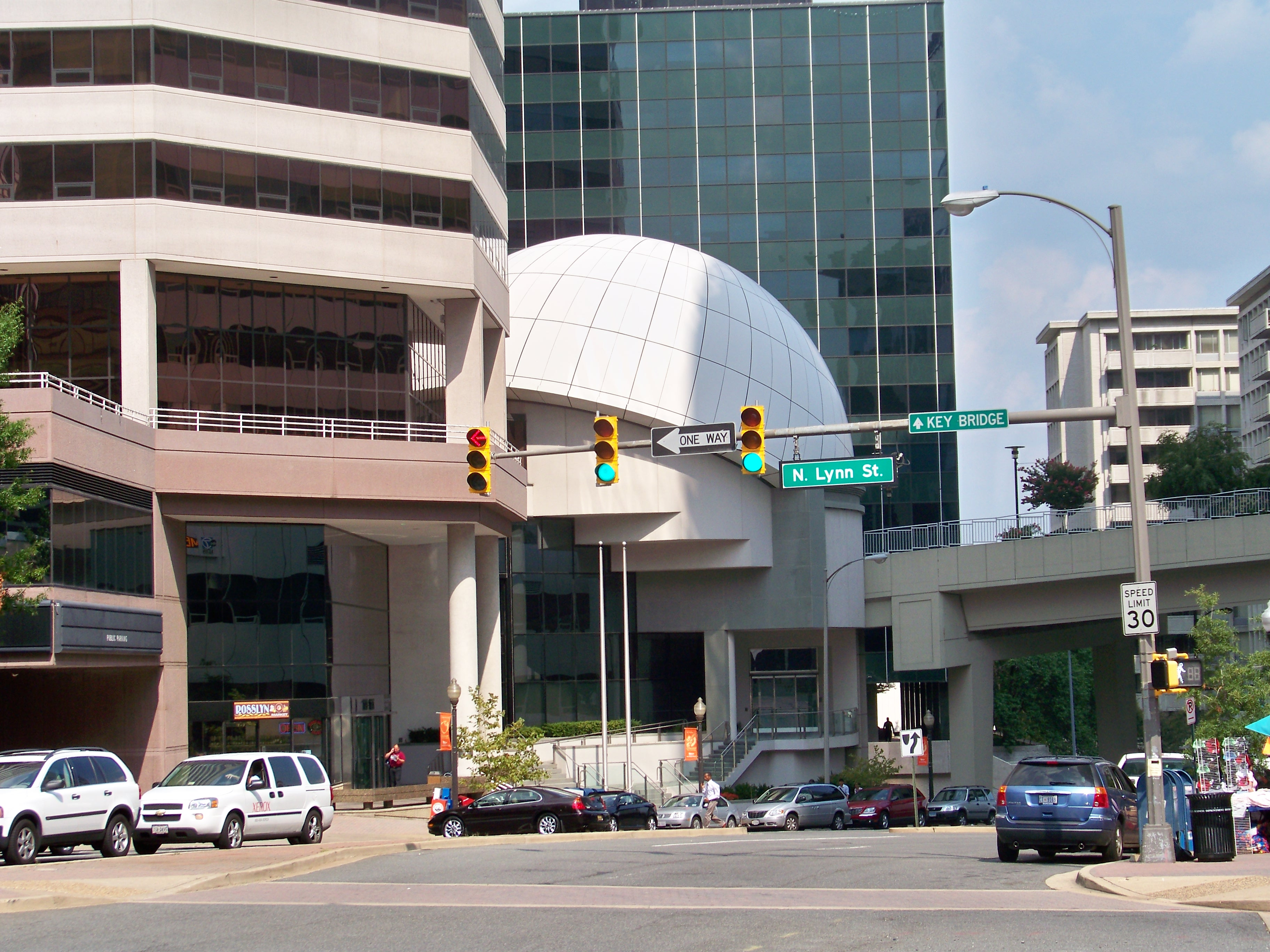 Intersection of Wilson Blvd. and North Lynn Street in the Rosslyn neighborhood of Arlington, Virginia. The former Newseum building (with the dome) is visible in the background.